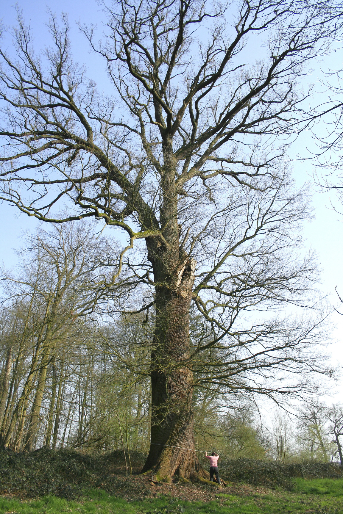 Pedonculate oak.